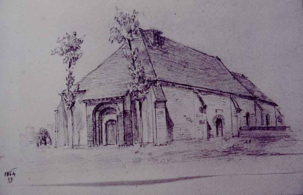 L'ancienne_église_de_Mesnil